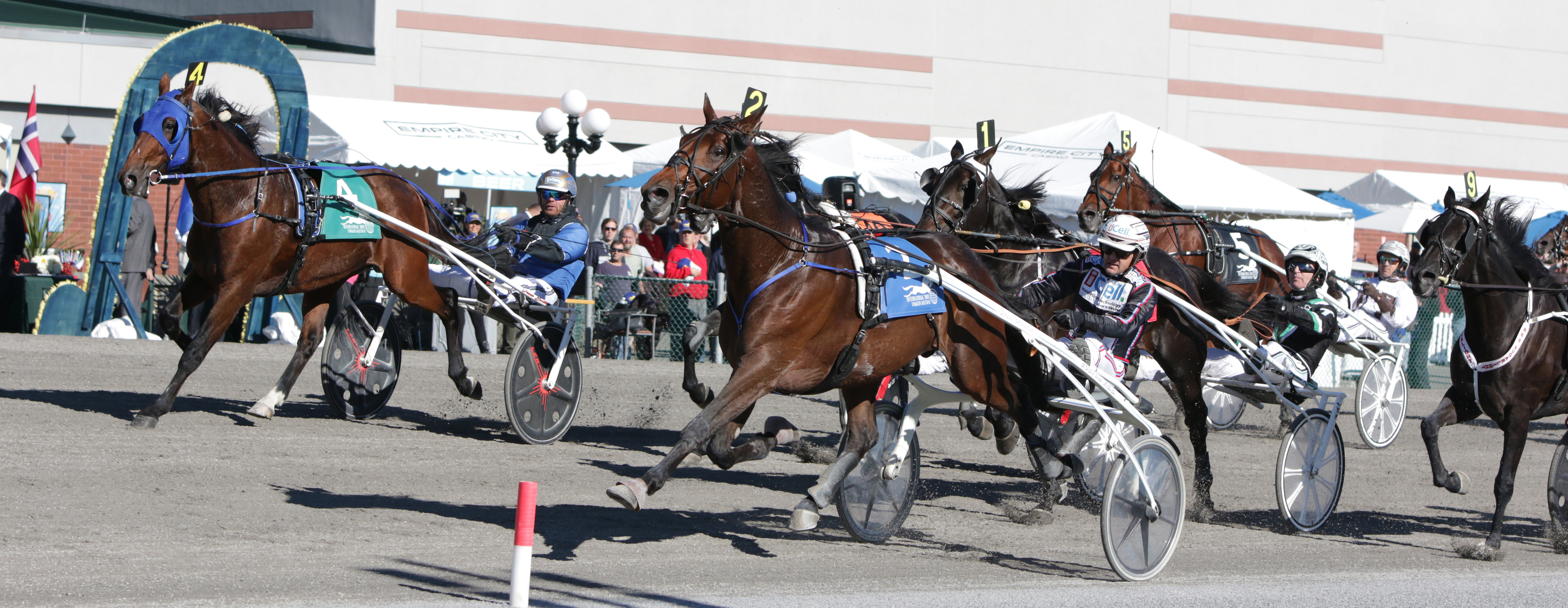 The $1,000,000 International Trot was brought back after a 20 year hiatus in Yonkers, New York.. Papagayo E of Norway was the winner.